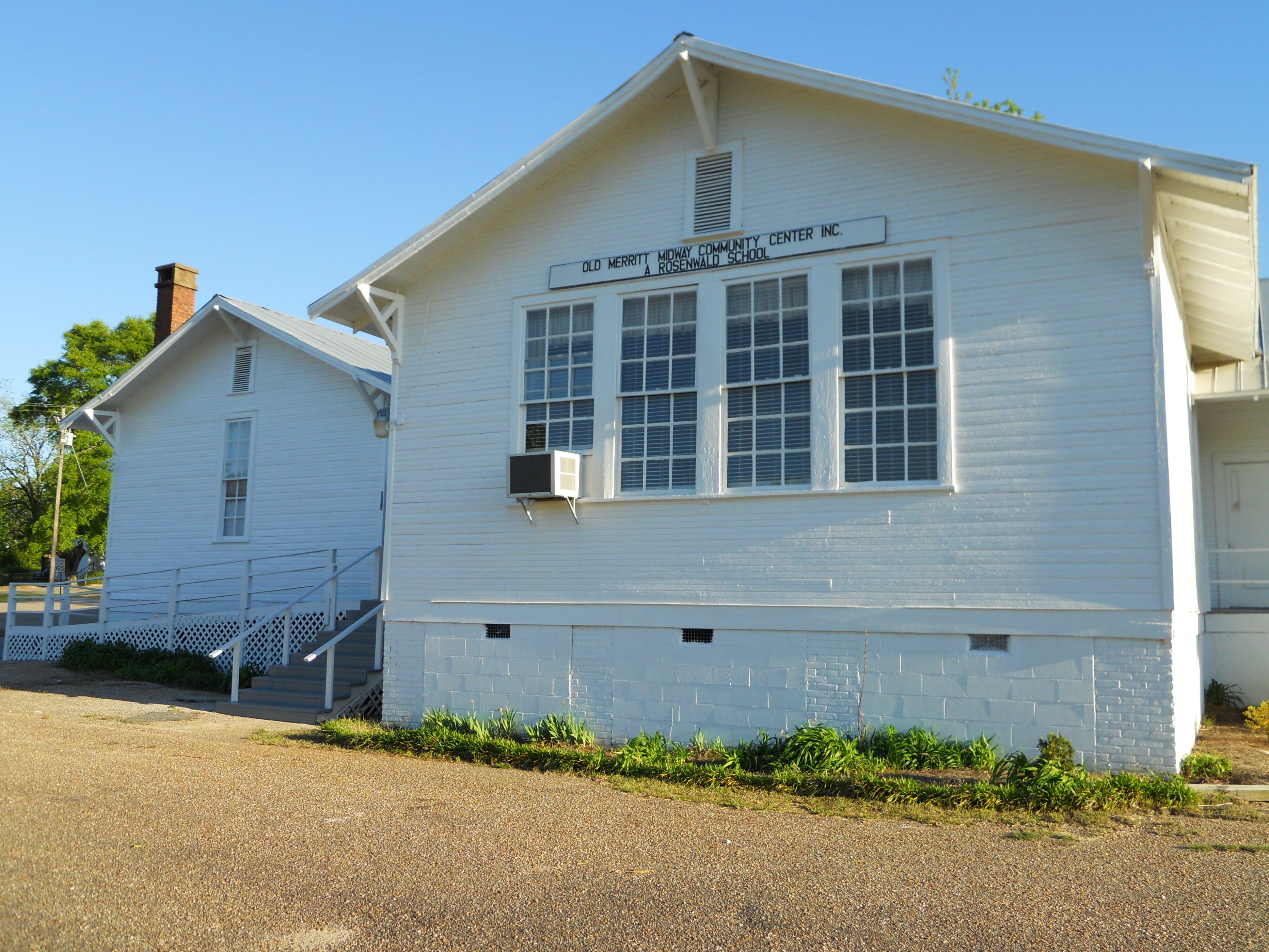 This is a photograph of the Merritt Rosenwald School in Midway Alabama.